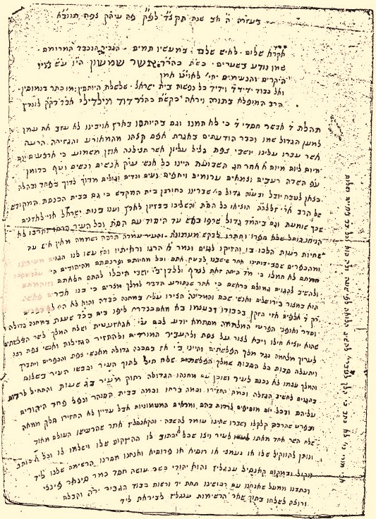 Letter relating to the Safed Plunder, 1834/